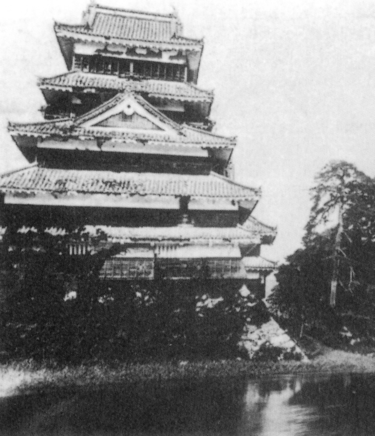 松本城古写真。明治時代に撮影された天守閣写真。 Old photo of Matsumoto Castle: the keep (tenshukaku), taken during the Meiji Period.